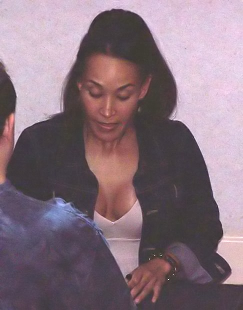 Rachel Luttrell (Stargate Atlantis) signing autographs for fans